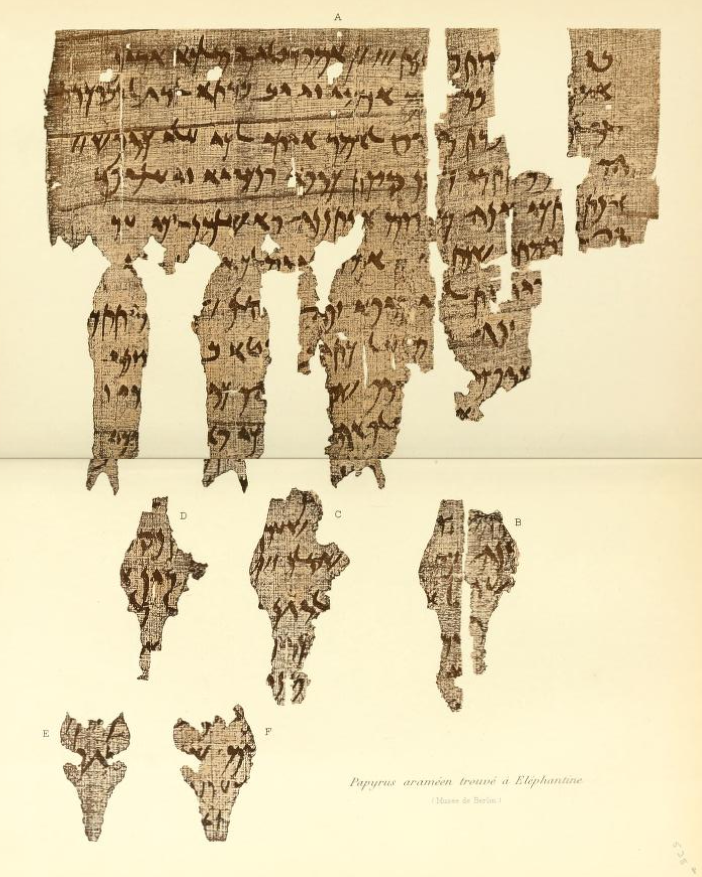 Aramaic papyrus containing a contract for a loan, dated to regnal year 5 of pharaoh Amyrtaios, in 400 BCE. From Elephantine (Upper Egypt), 28th Dynasty, Late Period.